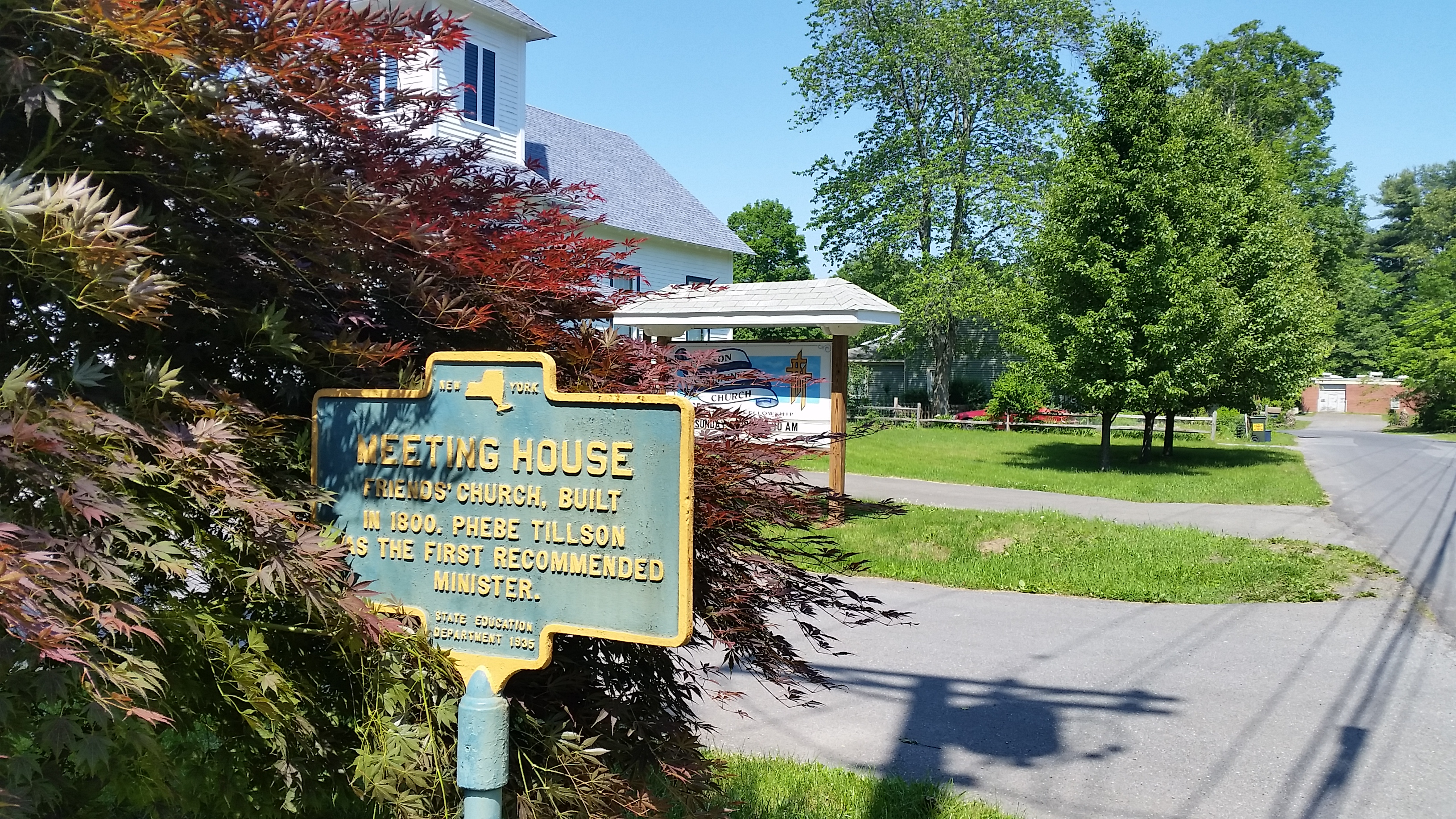 NY State historical marker for Tillson Friends meeting house